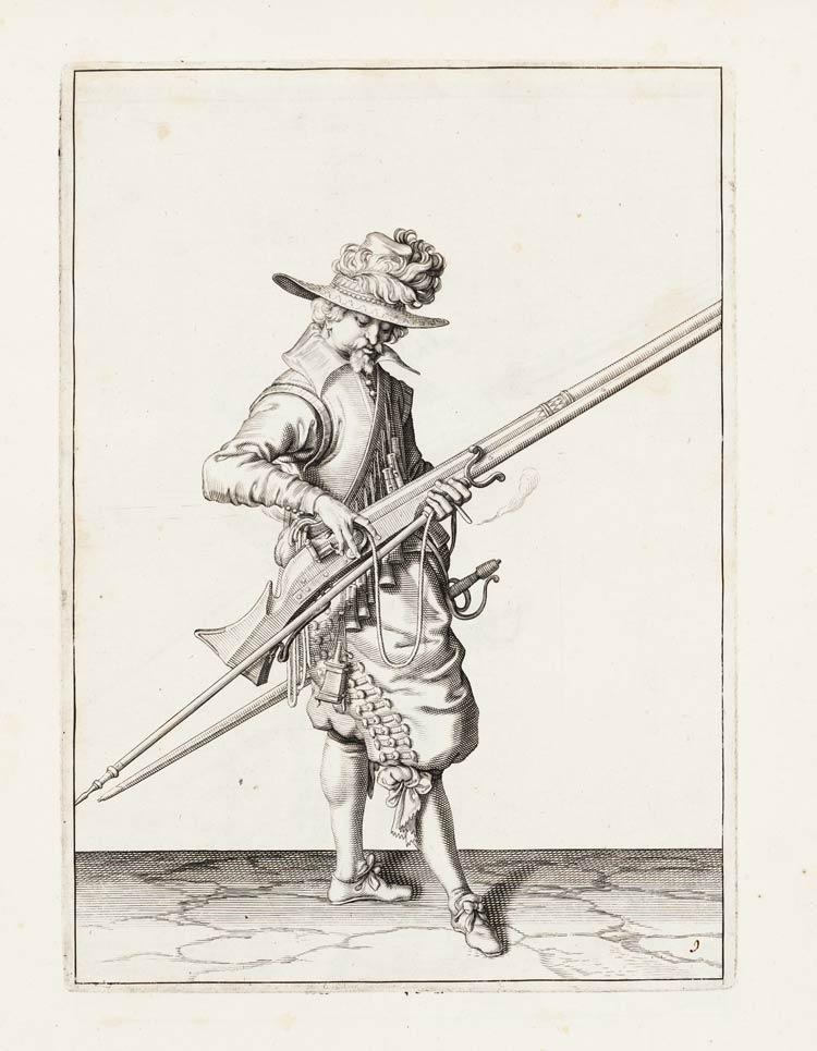 Instructions for the use of the musket. Instruction 9: try the fuse.